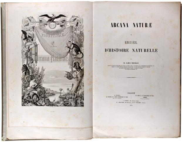 Arcana Naturae